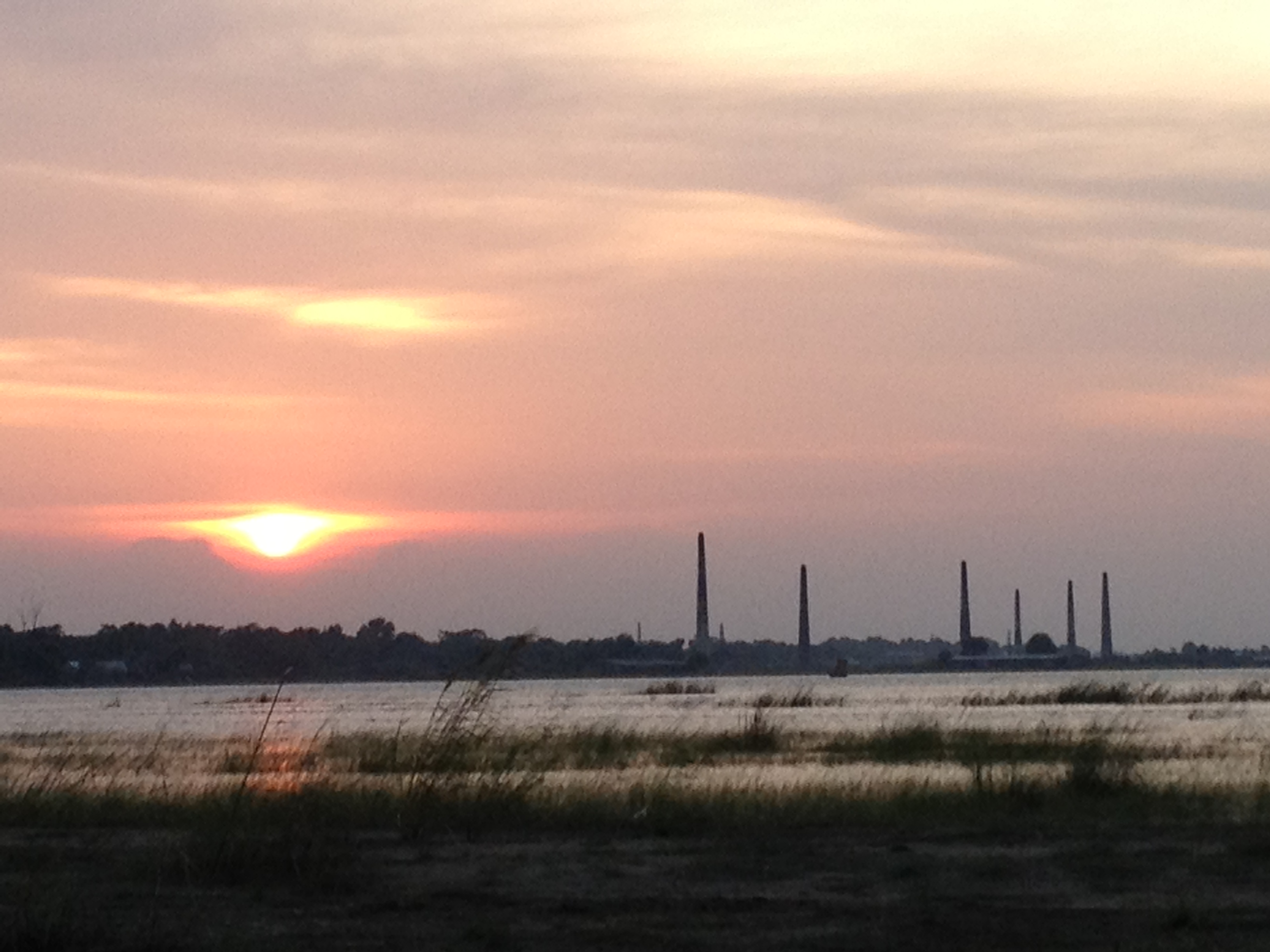 ধলার মোড়, from a small island in Padma river